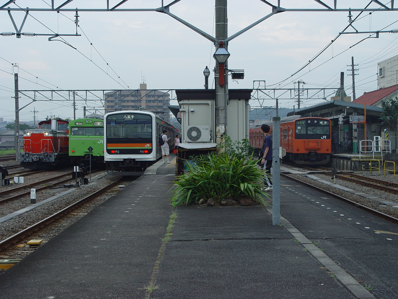 A busy early morning scene at JR Komagawa Station showing (left to right) a DD51 on a Joyful Train working, a stabled Kawagoe Line 103-3000 series EMU (set 51), Hachiko Line 209-3000 series EMU, and a Chuo Line 201 series EMU